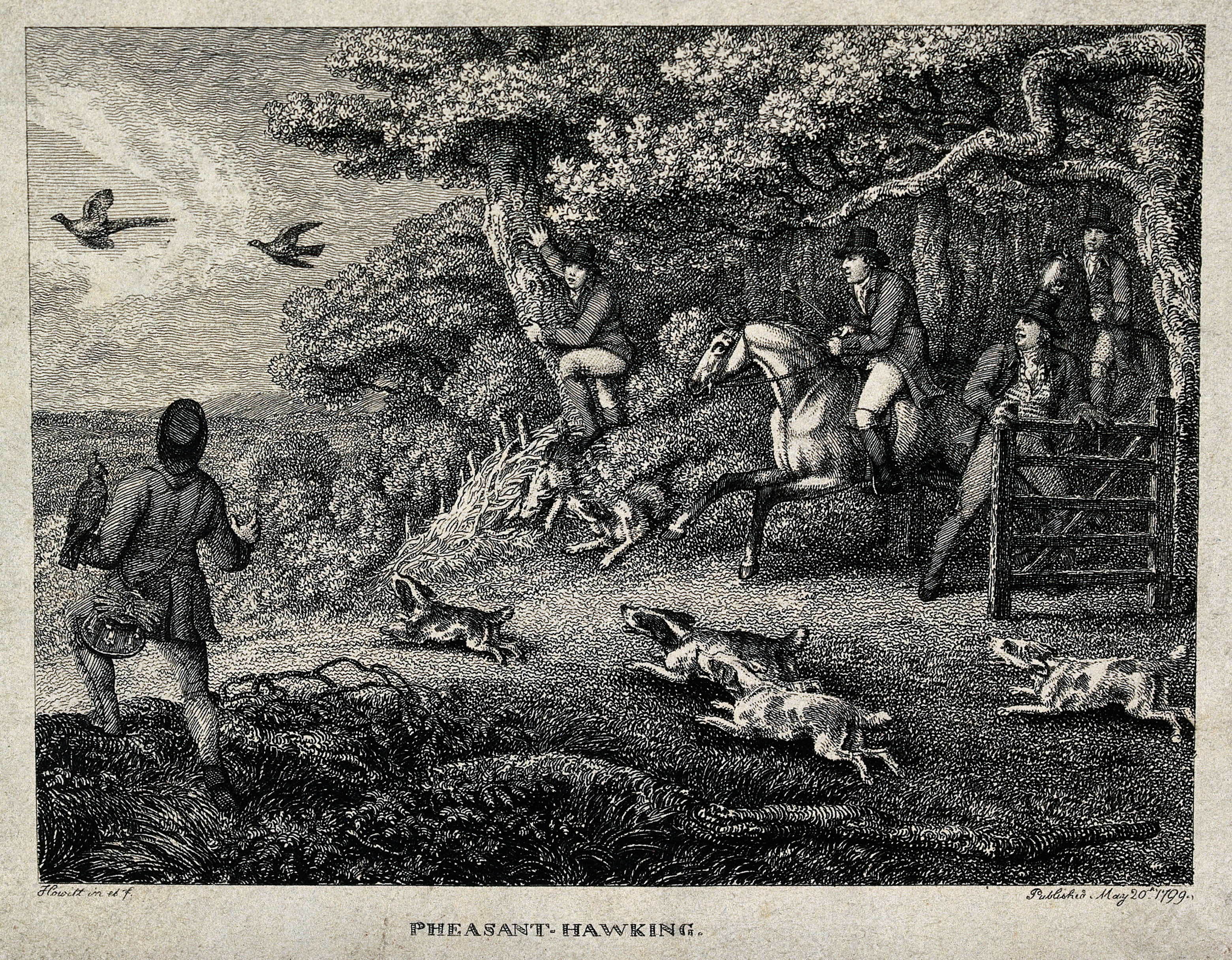 Huntsmen opening gates to release dogs to chase after fowl. Etching by W. S. Howitt. Iconographic Collections Keywords: William Samuel Howitt